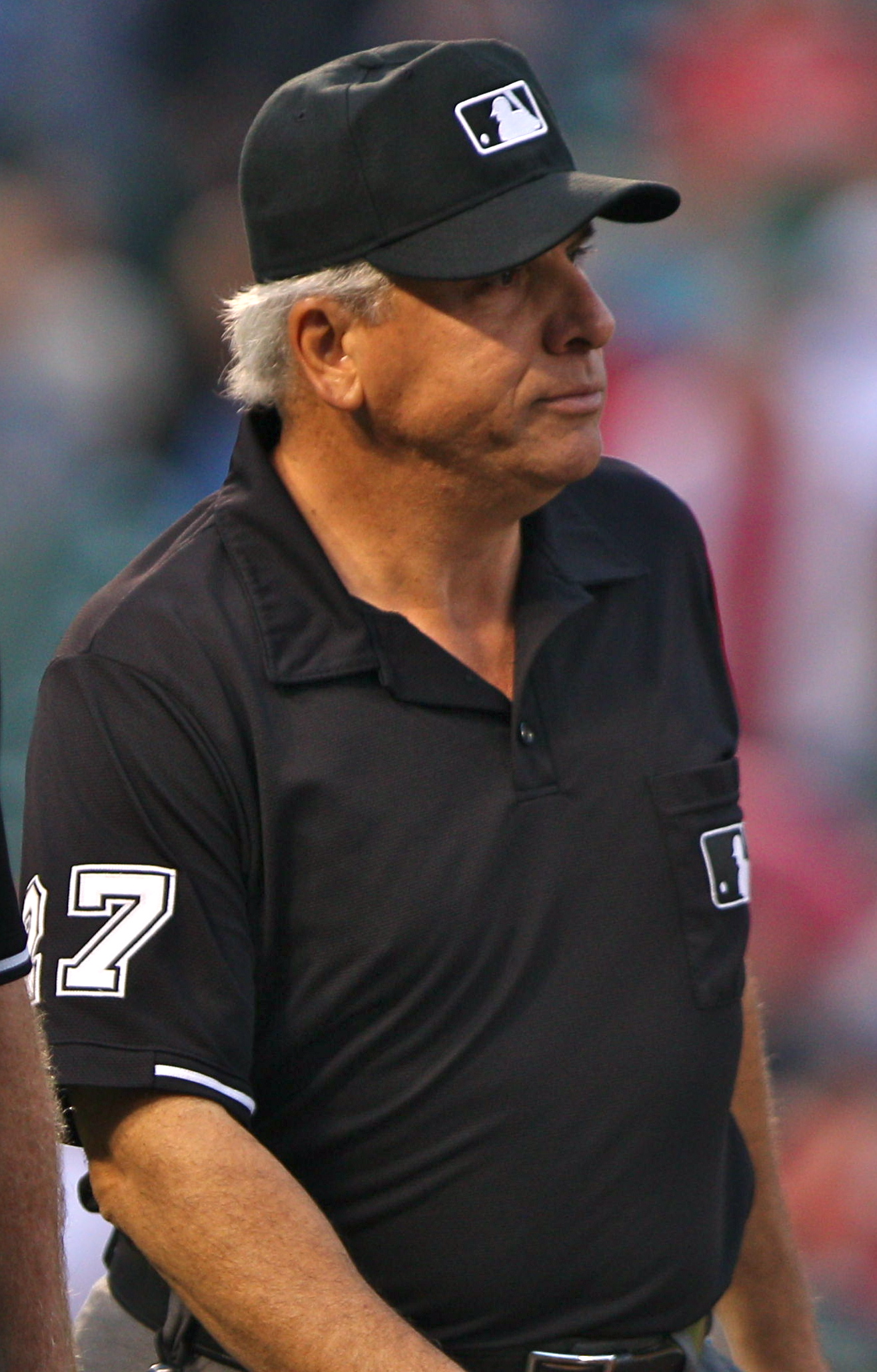 MLB umpire Larry Vanover - Red Sox at Orioles May 21, 2012